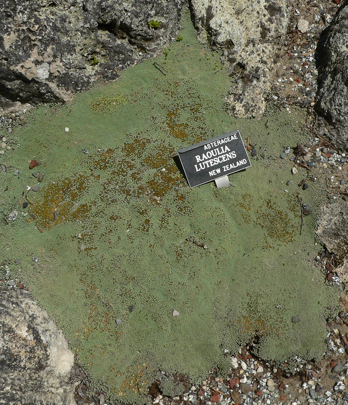 Photo of Raoulia lutescens at the San Francisco Botanical Garden